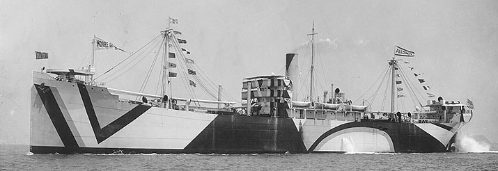 S.S. Alloway (American Freighter, 1918) Underway during builder's trials on 5 July 1918, probably in San Francisco Bay, California. She is flying the flag of her builder, the Moore Shipbuilding Company of Oakland, California, from a short mast on her forecastle. The United States Shipping Board flag is flying from her forward mast, and a flag bearing her name is at the top of her after mast. Originally named Shintaku, this ship was acquired by the Navy upon completion and commissioned on 11 July 1918 as USS Alloway (ID # 3139). She was returned to the U.S. Shipping Board on 3 March 1919. Note the ship's "dazzle" camouflage scheme.